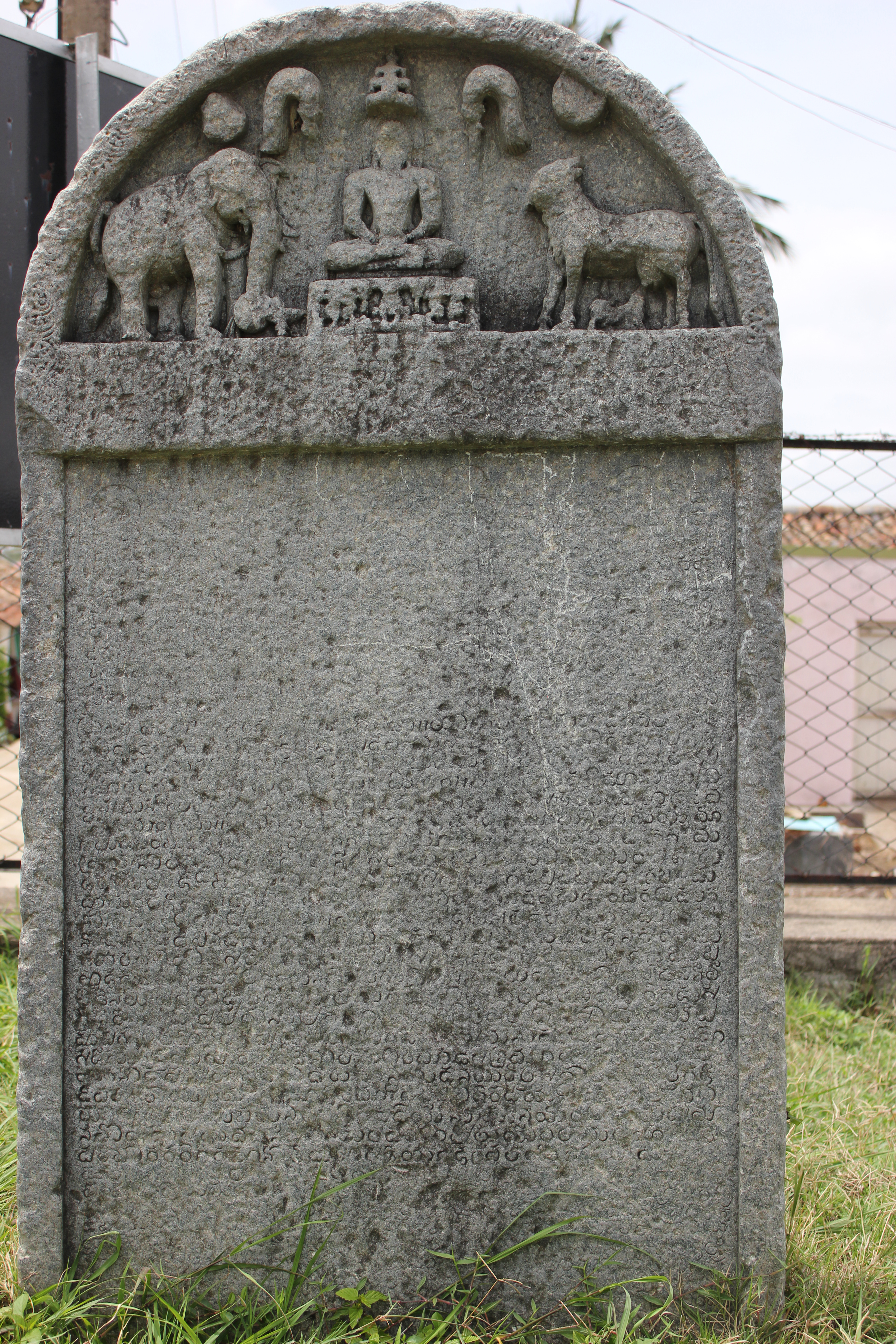 This photograph of an Kannada inscription of Venkatadri Nayaka, a Chieftain of Belur (1577 AD) was taken by me at the twin Hoysala temple complex (Nageshvara and Chennakeshava) in Mosale, Hassan district, Karnataka state, India. Source for dating of inscription:Epigraphia Carnatica: Inscriptions in the Hassan District By Benjamin Lewis Rice, Director of Archaeological Researches in Mysore, Vol 5 (Part 1), 1902, Mangalore, Bassel Mission Press, Chapters:Classified list of Inscriptions, no.165, pg XLIX; Hassan Taluq, pg 93, ins no. 165